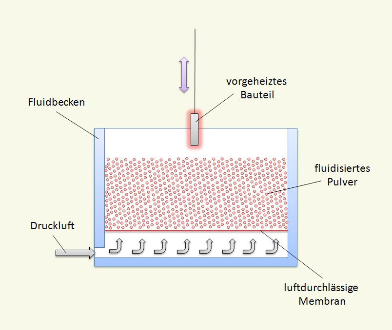 Plastic coatings, also known as powder painting or powder coating, create coatings, which are characterized through hardness, scratch resistance, electrical insulation but also electrical conductivity, chemical resistance, UV- and weather resistance as well as hygienical and physiological harmlessness.